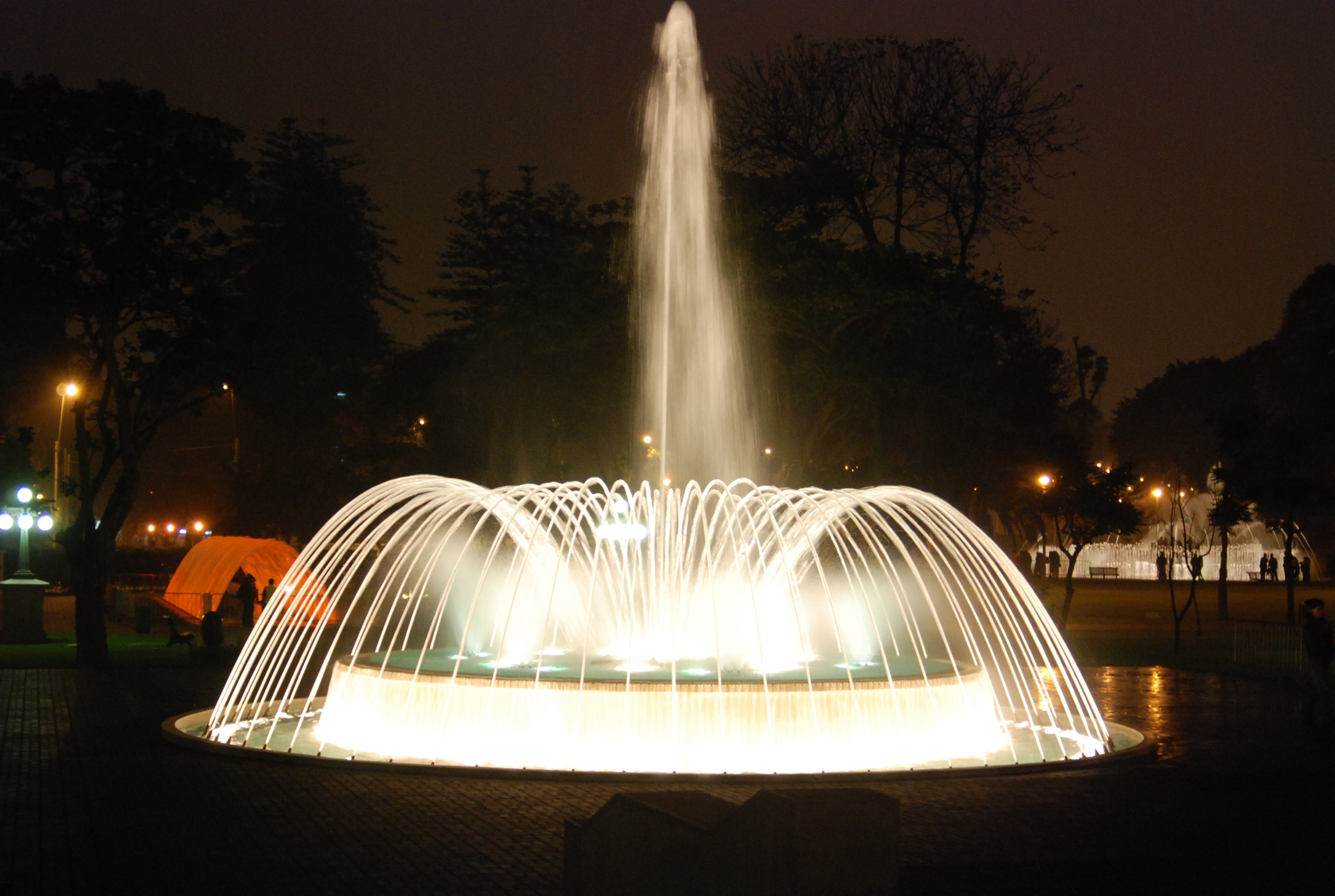 Parque de la exposicion, A park, that shows the largest park with water fountains